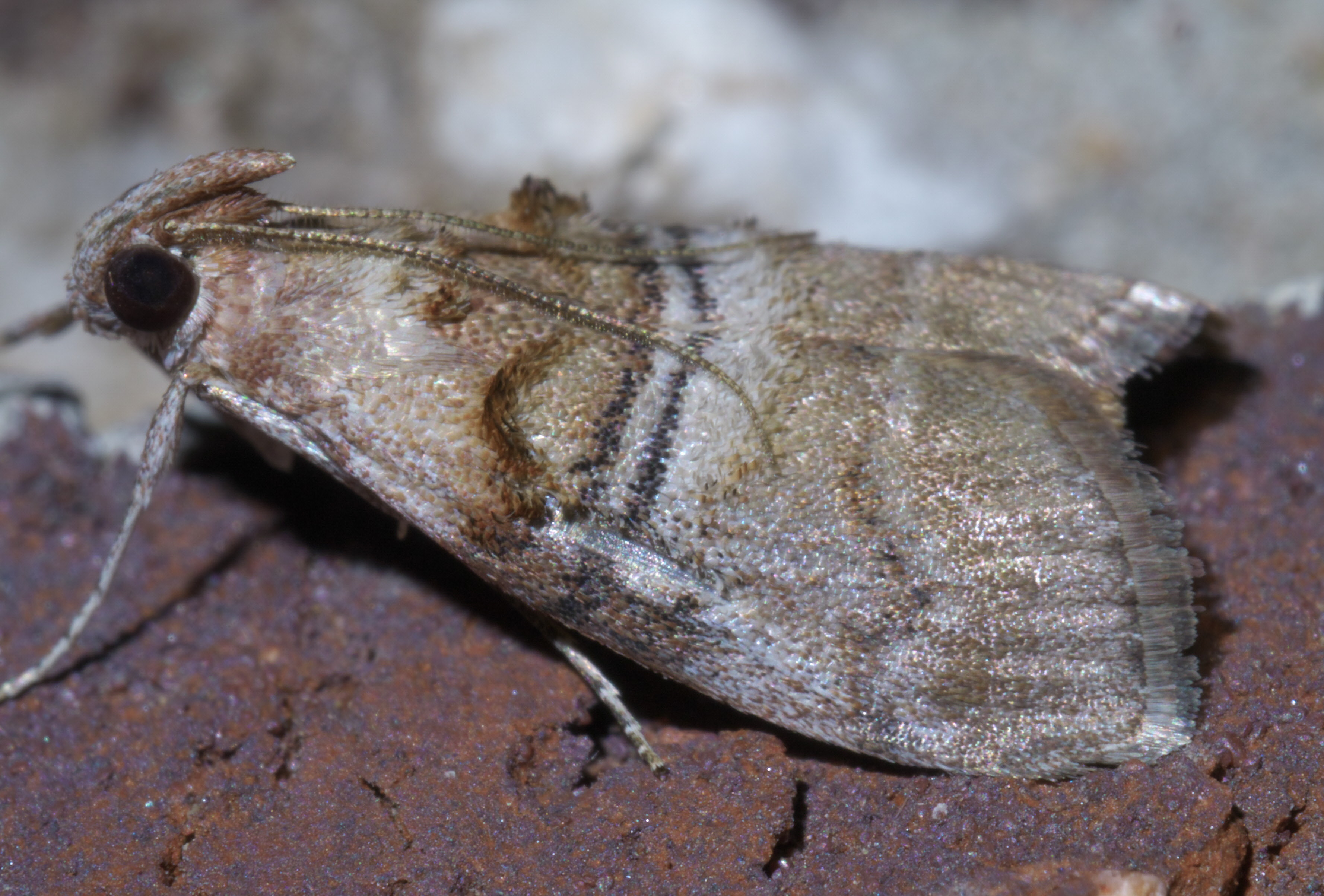 Pococera militella, Sycamore Webworm Moth - Hodges #5604, Size: 11.5 mm, ID Confidence: 93